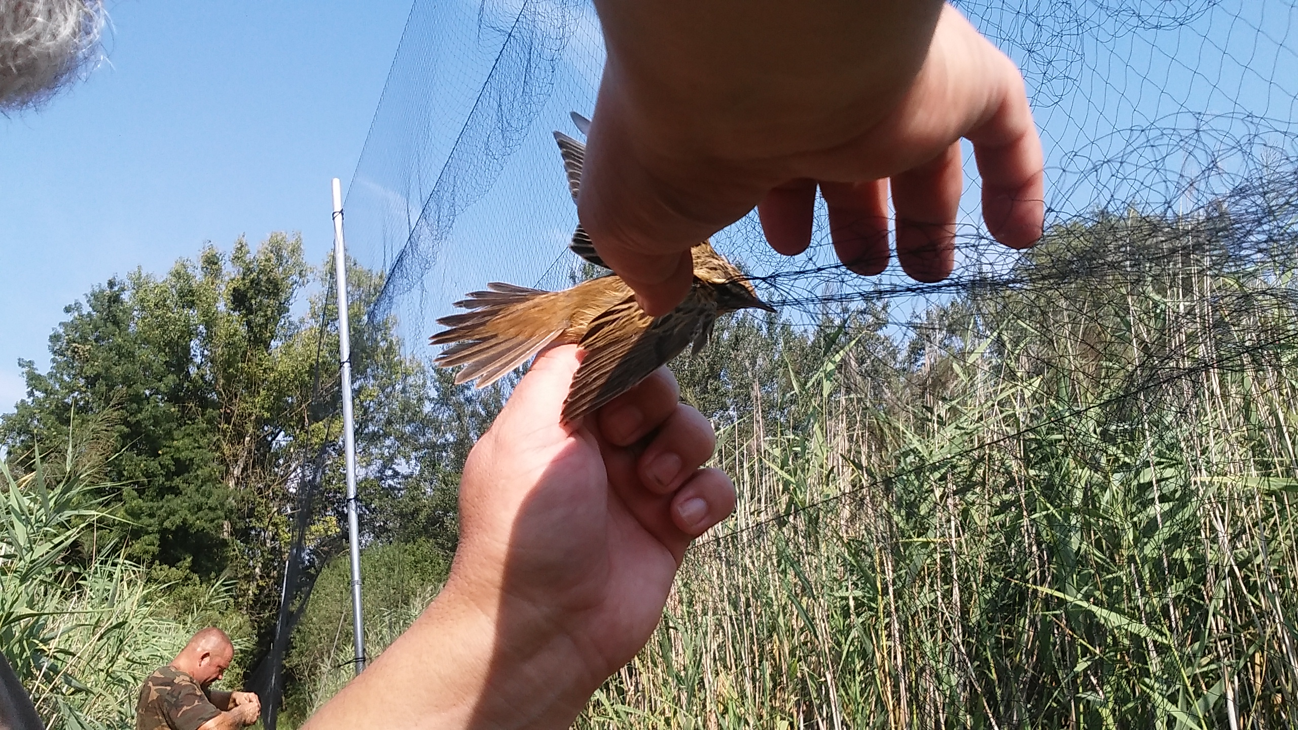 Madárszedés függönyhálóból (foltos nádiposzáta, Ócsa)